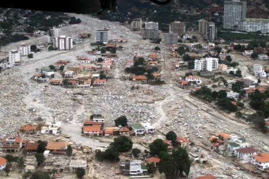 (taken verbatim from USGS caption): Aerial view of debris-flow deposition resulting in widespread destruction on the Caraballeda fan of the Quebrada San Julián. Avulsion of the main channel (left side of photo) resulted in deposits up to 6-m in thickness and totaling about 1.8 million cubic meters of bouldery debris. Secondary new flood channels are visible through center of fan to the lower right of photo (Photo by Lawson Smith, US ACE).